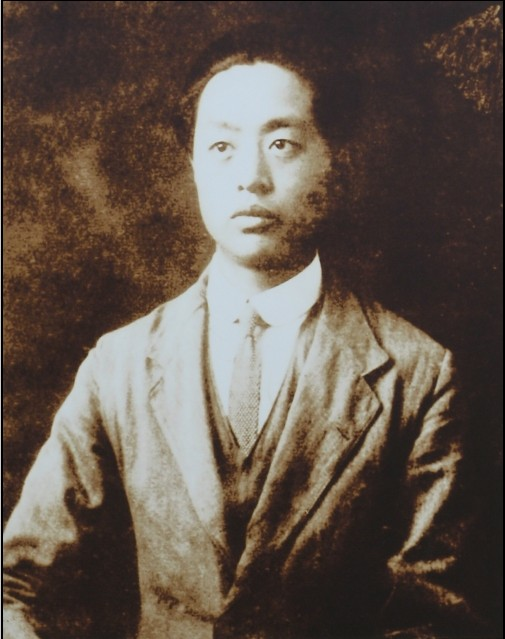 Xiao San (10 October 1896 - 4 February 1983) was a Chinese poet. He graduated from Hunan First Normal University, where he studied alongside Mao Zedong and Cai Hesen.